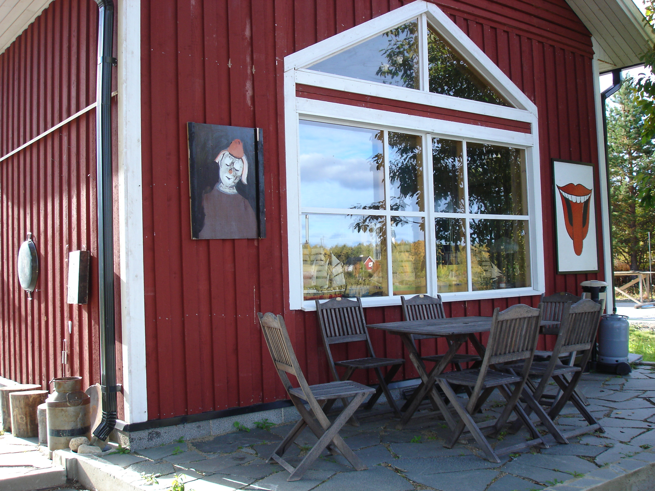 The sauna of the lord of Sikkola by the Ounasjoki river in Kittilä, Finland